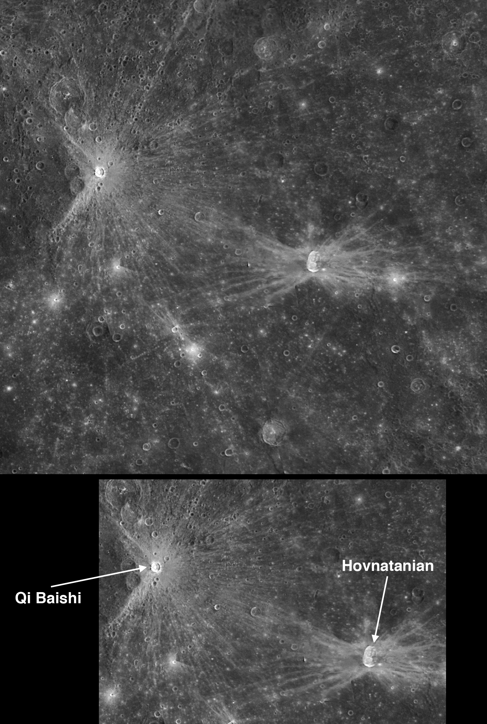 Date Acquired: January 14, 2008 Instrument: Mosaic created with images taken by the Narrow Angle Camera (NAC) of the Mercury Dual Imaging System (MDIS) Resolution: 500 meters/pixel (0.3 miles) Scale: Qi Baishi has a diameter of 15 kilometers (9.3 miles). Hovnatanian has a diameter of 34 kilometers (21 miles). Of Interest: This NAC image shows Qi Baishi and Hovnatanian, two craters that were newly named in November 2008. Qi Baishi is named for the famous Chinese painter who died in his nineties in 1957. Hovnatanian is named for the nineteenth century Armenian painter Hakop Hovnatanian. Both craters are relatively small but exhibit bright ray systems, indicating that they are comparatively young features on Mercury's surface, as discussed in the earlier release for Enwonwu. Qi Baishi has an asymmetric pattern of ejecta rays, which formed by an object travelling to the east or to the west and impacting Mercury's surface at a very low incidence angle. However, Qi Baishi crater is still roughly circular, which is in contrast to the elongated shape of neighboring Hovnatanian crater. Hovnatanian crater and its “butterfly” pattern of ejecta rays were created by an impact at an even lower angle than that which formed Qi Baishi. From the "butterfly" pattern of rays, the Hovnatanian impactor was travelling either north-to-south or south-to-north prior to hitting Mercury's surface. Credit: NASA/Johns Hopkins University Applied Physics Laboratory/Carnegie Institution of Washington